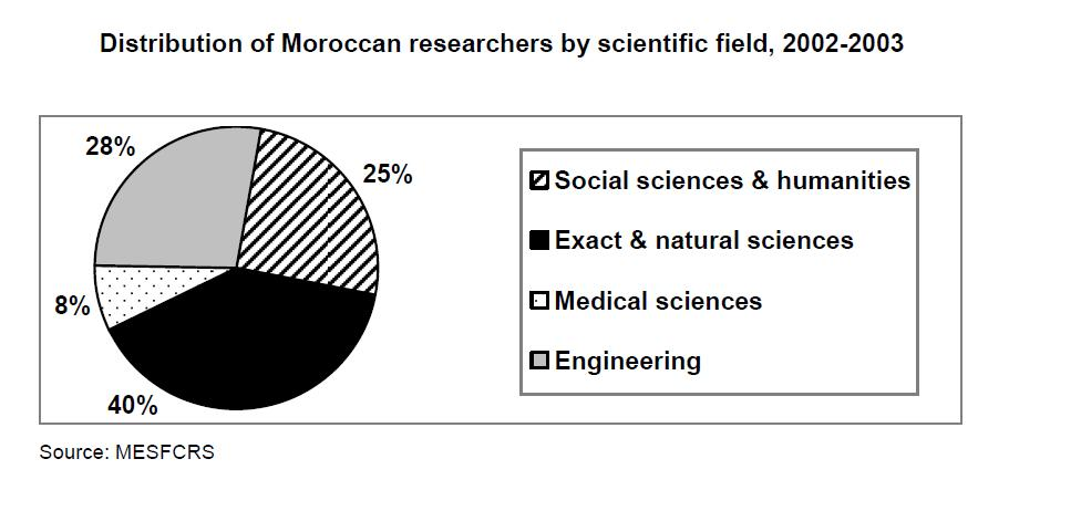 Graph made about Moroccan researchers with MESFCRS as a source